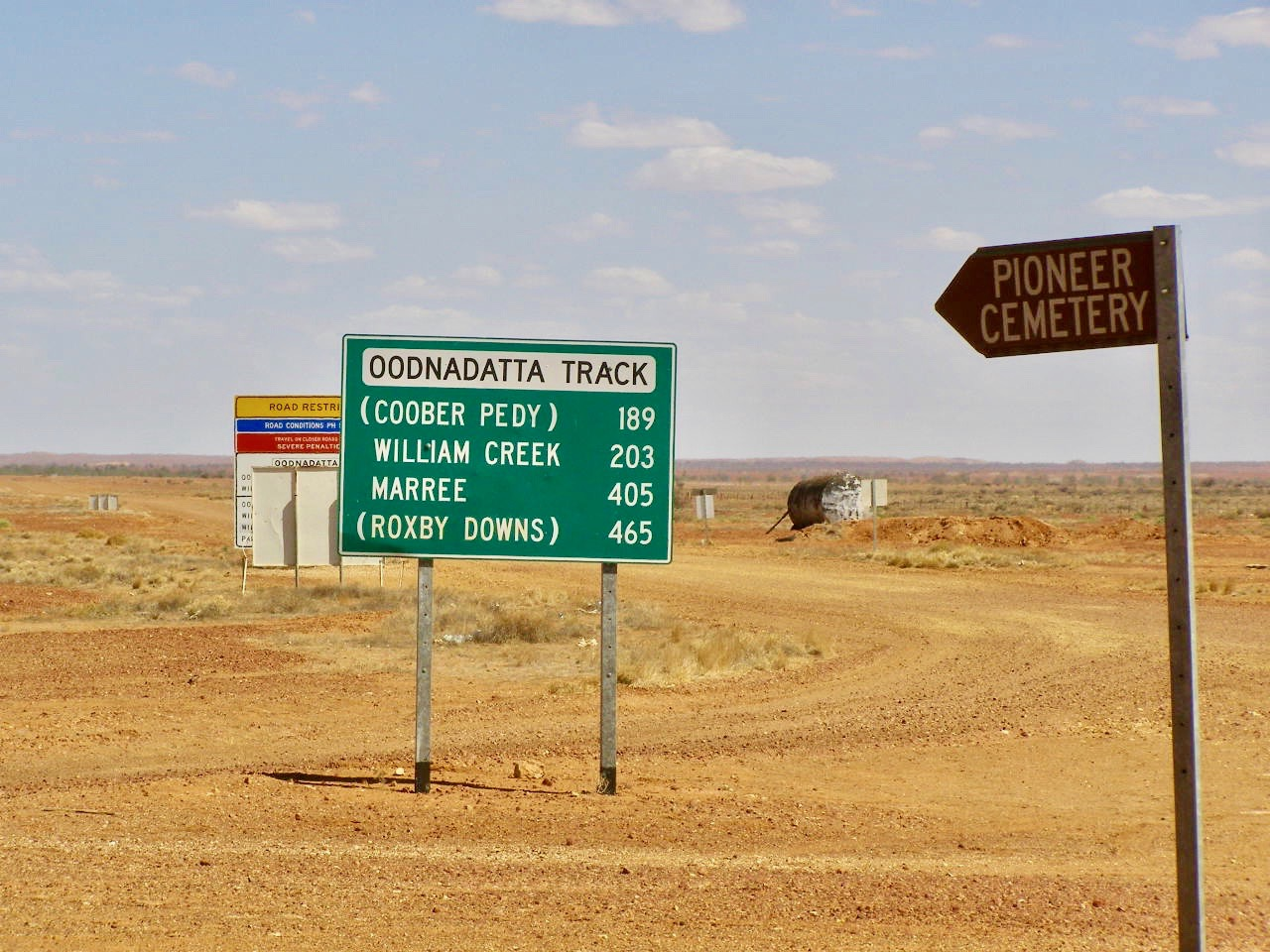 Road sign on the Oodnadatta Track, Oodnadatta, South Australia